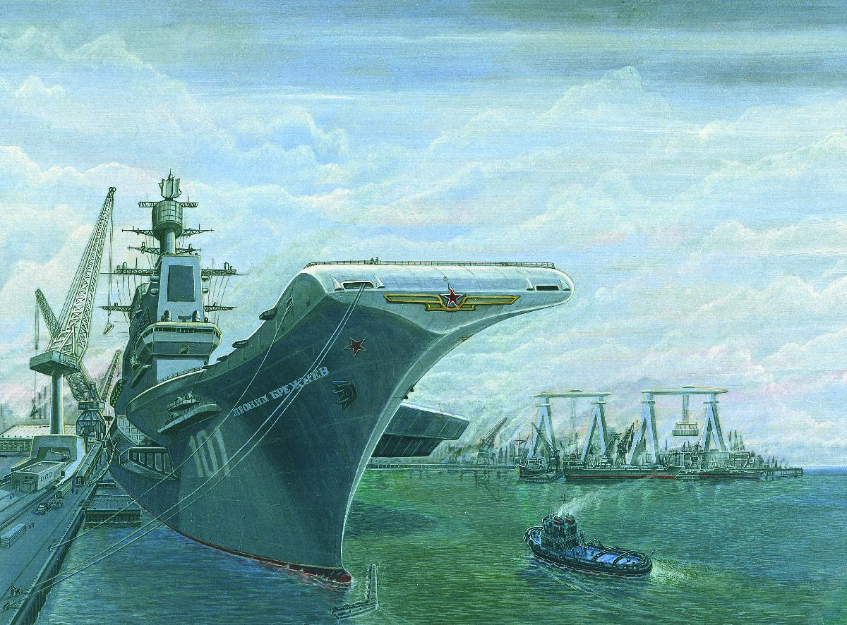 SOVIET TBILISI-CLASS CARRIER AT NIKOLAYEV The lead ship of the USSR's 65,000-metric ton TBILISI-class aircraft carriers being fitted out in the late 1980s in Nikolayev Shipyard. This carrier marked an evolutionary advance in naval capabilities over 40,000-metric ton KIEV-Class carriers then operating with the Soviet fleet.